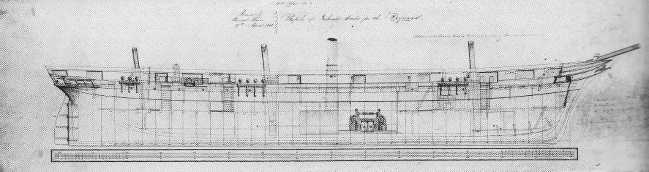 The design draft of HMS Reynard (1848), DR6279A